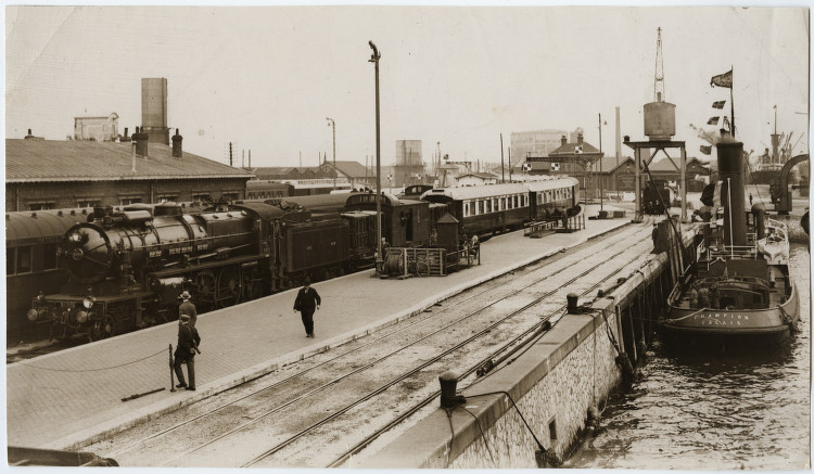 Title: Train 79, Calais Pier Station Creator: Wide World Photos Date: 1926 Place: Calais, France Part Of: David Goodyear collection of foreign railroad photographs Description: Shown here is the inqugural Fleche d'Or express in the down direction. Train 79 is arriving at the Calais pier station. This Pacific engine is one of M. Breville's inaugural series No. 3.1205. Source: Collyns, Adrian H. Northern Steam Vapeurs du Nord. DeGolyer Library, Southern Methodist University, 2003. Physical Description: 1 photograph: black and white; 14 x 25 cm. File: ag1983_0266_24_01_12r_train_sm_opt.jpg Rights: Please cite Southern Methodist University, Central University Libraries, DeGolyer Library when using this image file. A high-quality version of this file may be obtained for a fee by contacting . For more information, see: View Railroads: Photographs, Manuscripts, and Imprints